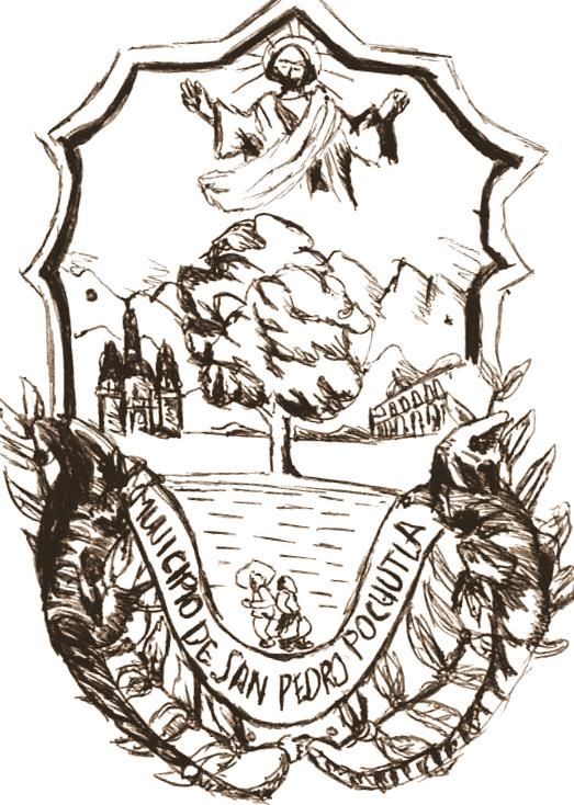 This Coat of arms was done by my, El ÁgorA.